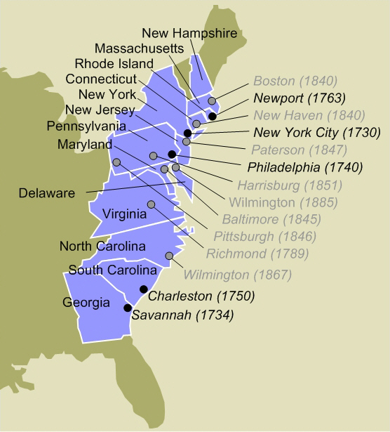 Map of the early Jewish Congregations in the 13 British Colonies in North America.